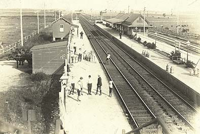 Tarro Railway Station Dated: c. 31 December 1915 Digital ID: 17420_a014_a014000783 Rights: We'd love to hear from you if you use our photos. Many other photos in our collection are available to view and browse on our website using Photo Investigator.